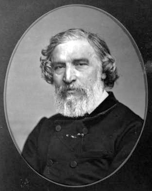 French actor Hugues Bouffé (1800-1888).